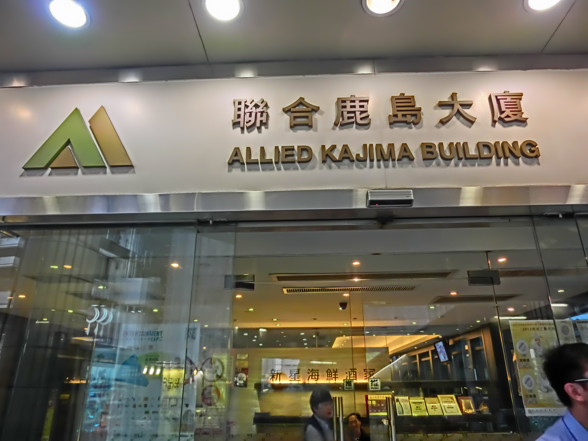 灣仔 告士打道, Gloucester Road, Wan Chai, Hong Kong